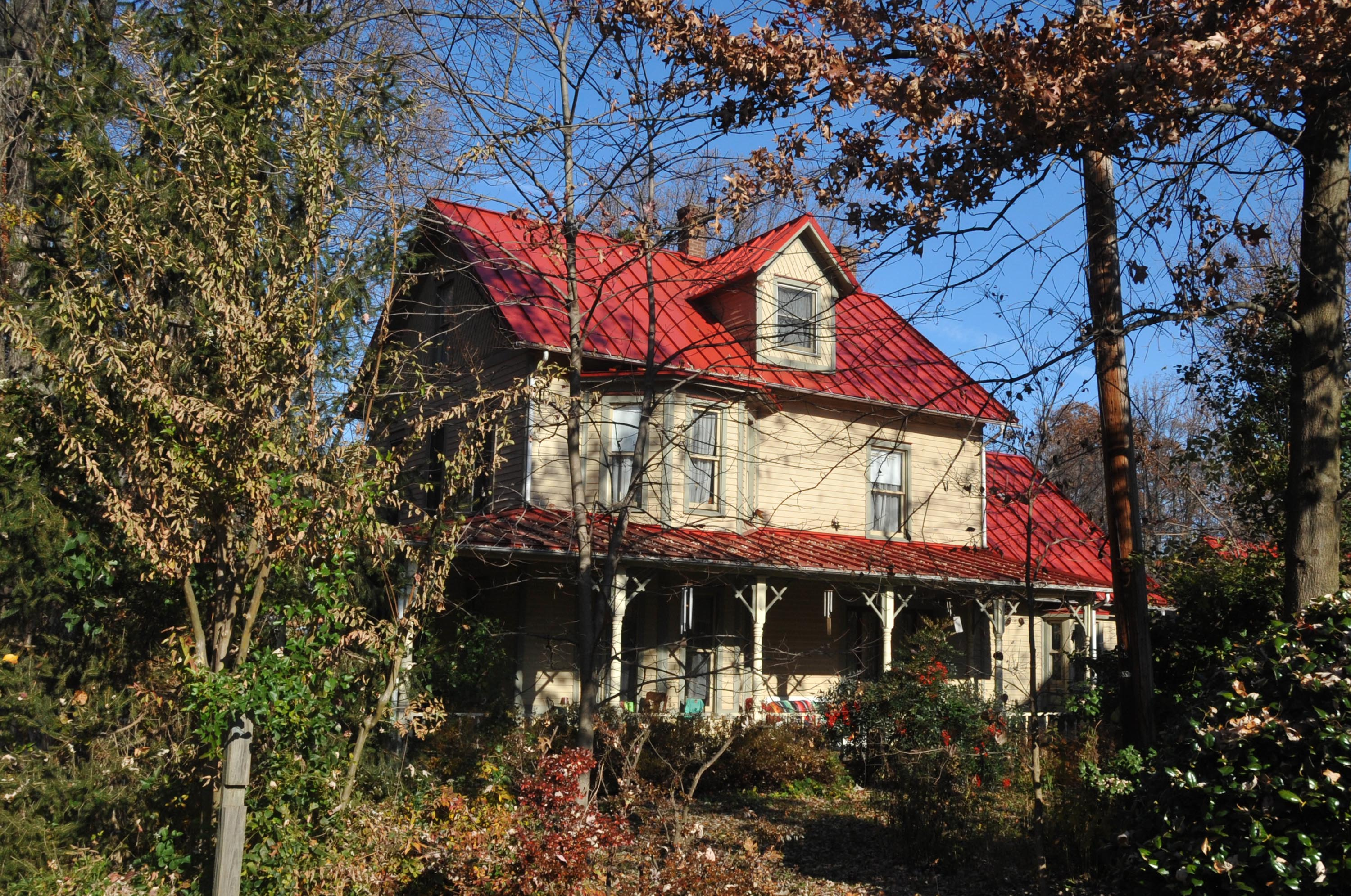 BUILT IN 1905 AND IS THE ONLY REMAINING STATION ON THE WASHINGTON AND FAIRFAX ELECTRIC RAILWAY WHICH OPERATED FROM 1904 TO 1939